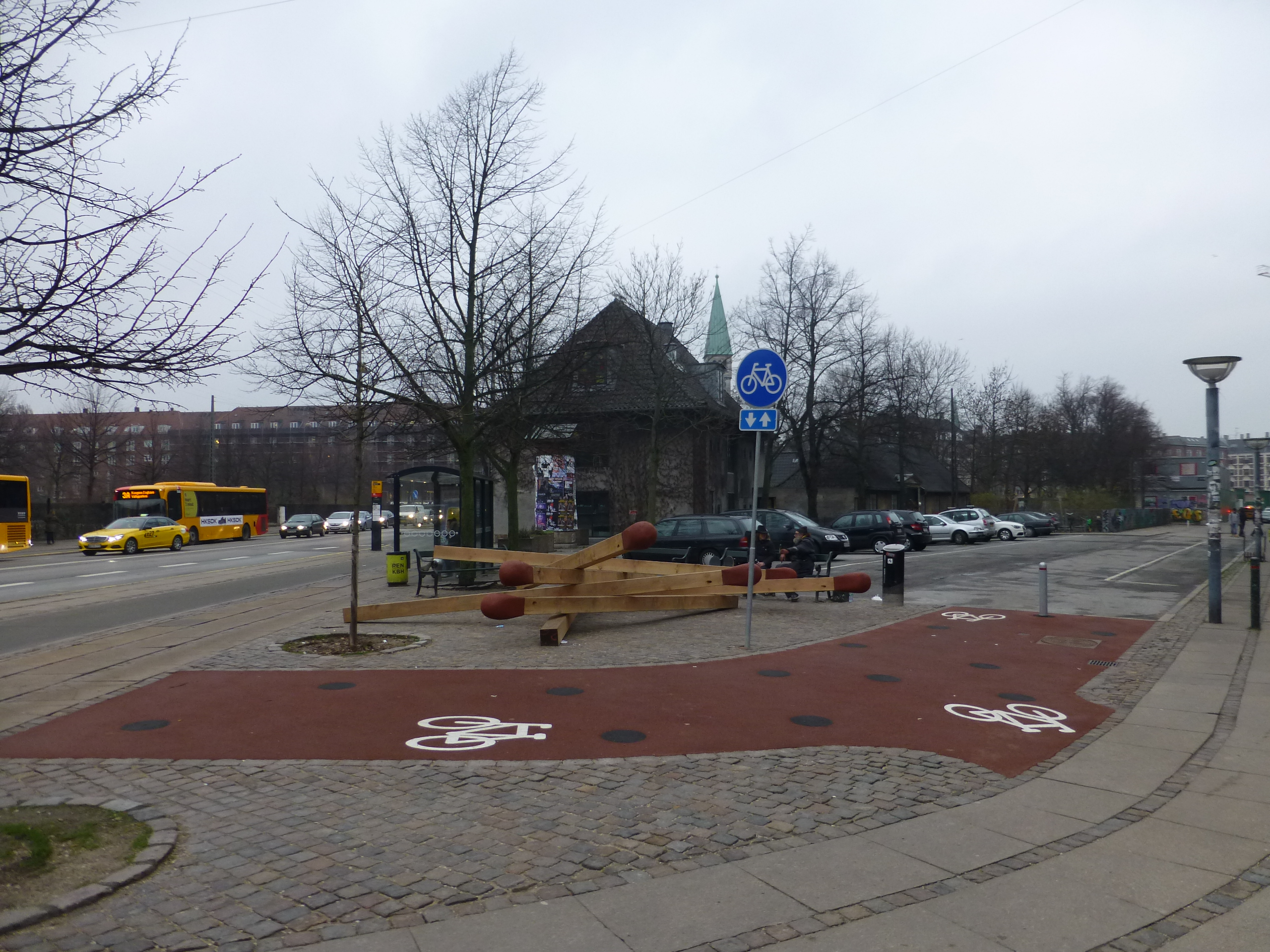 The square Cirkeline Plads in Vesterbro in Copenhagen.